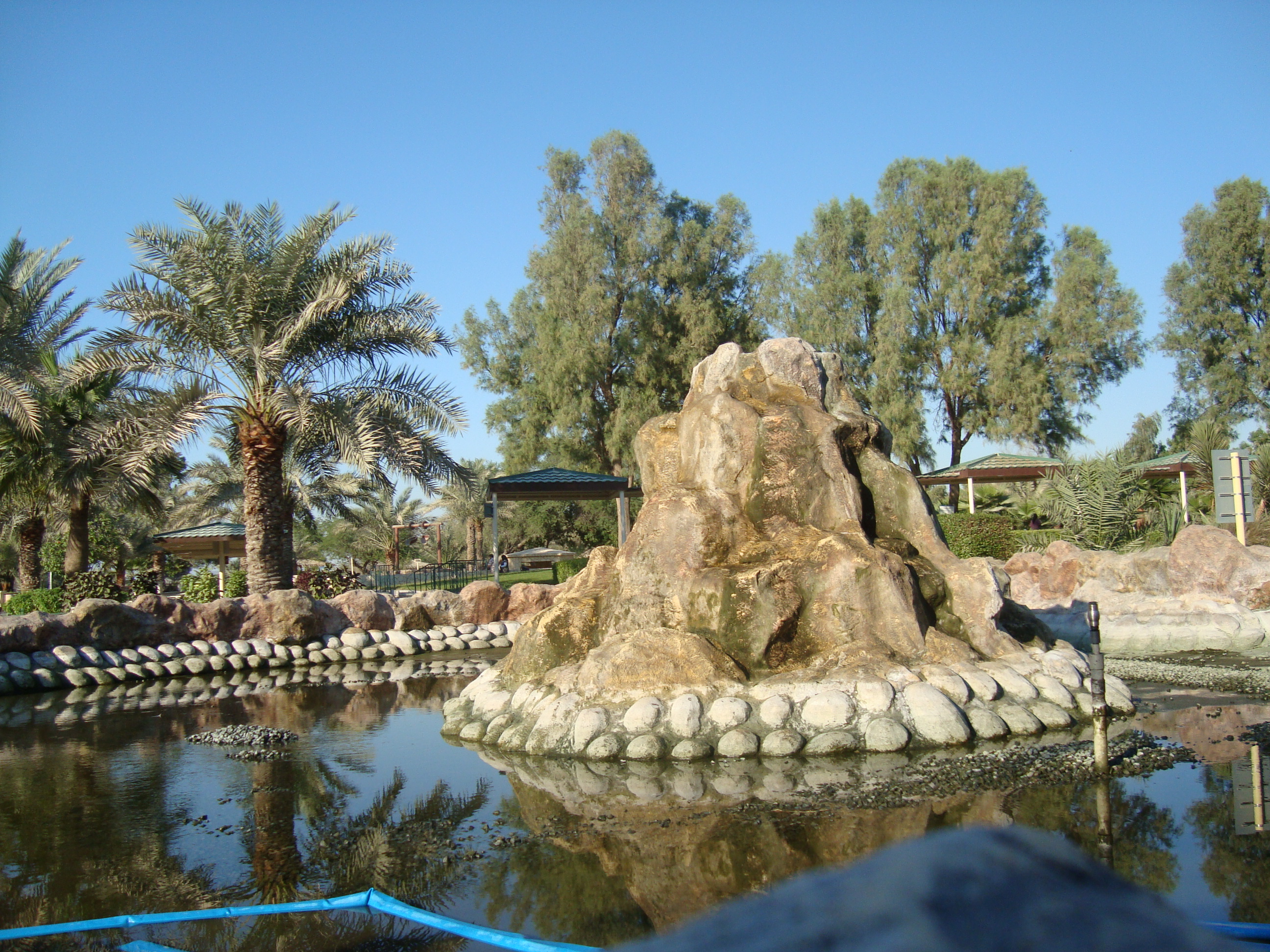 The artificial surface reservoir (pond) present in Al Areen Wildlife Park, in Bahrain.